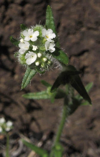 Cryptantha clevelandii. Santa Monica Mountains National Recreation Area, California, USA. Taken at Circle X Ranch: Grotto Trail. NPS photo, no copyright.